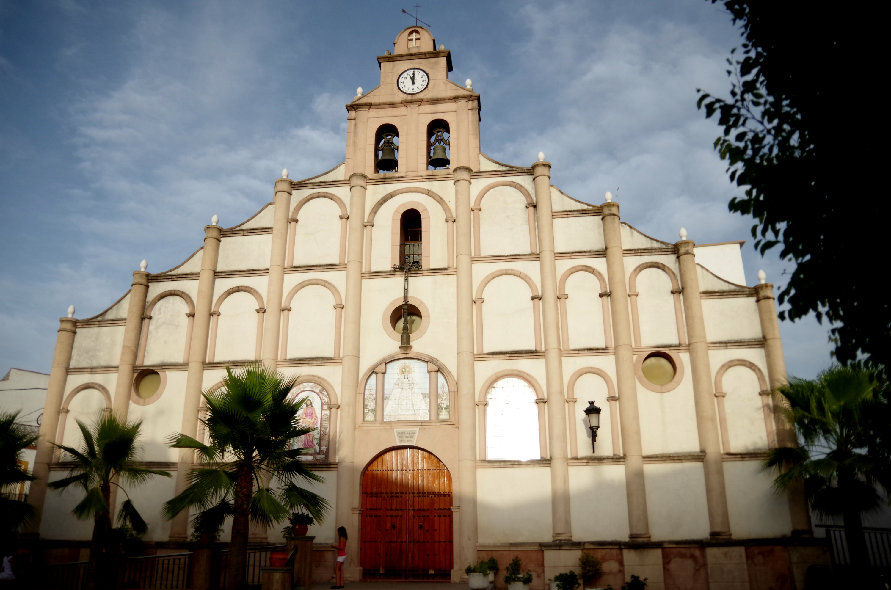 Church Iglesia de Santa María del Valle